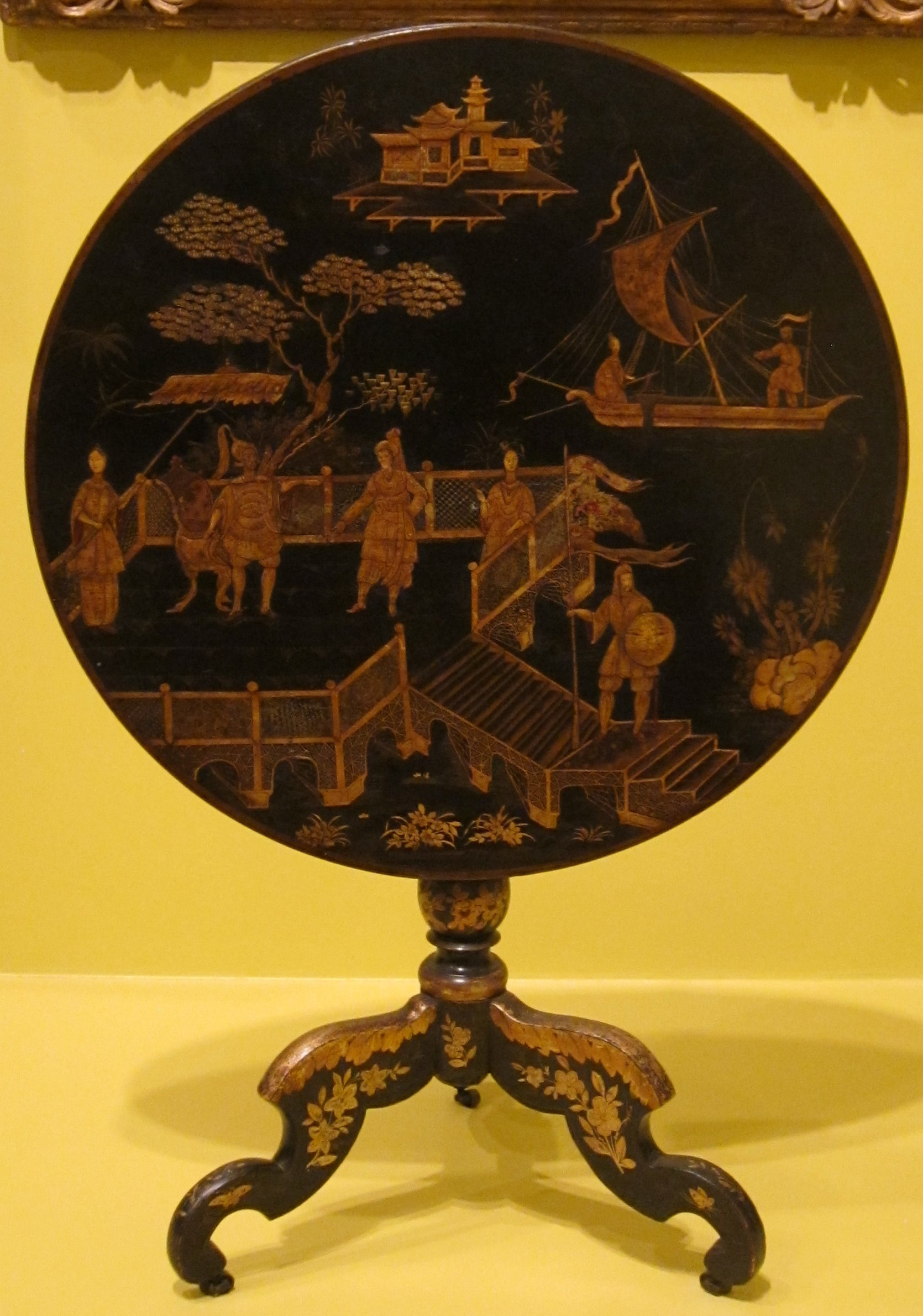 English tilt-top table, late 18th century, Japanned wood (imitation black and gold lacquer), Honolulu Academy of Arts